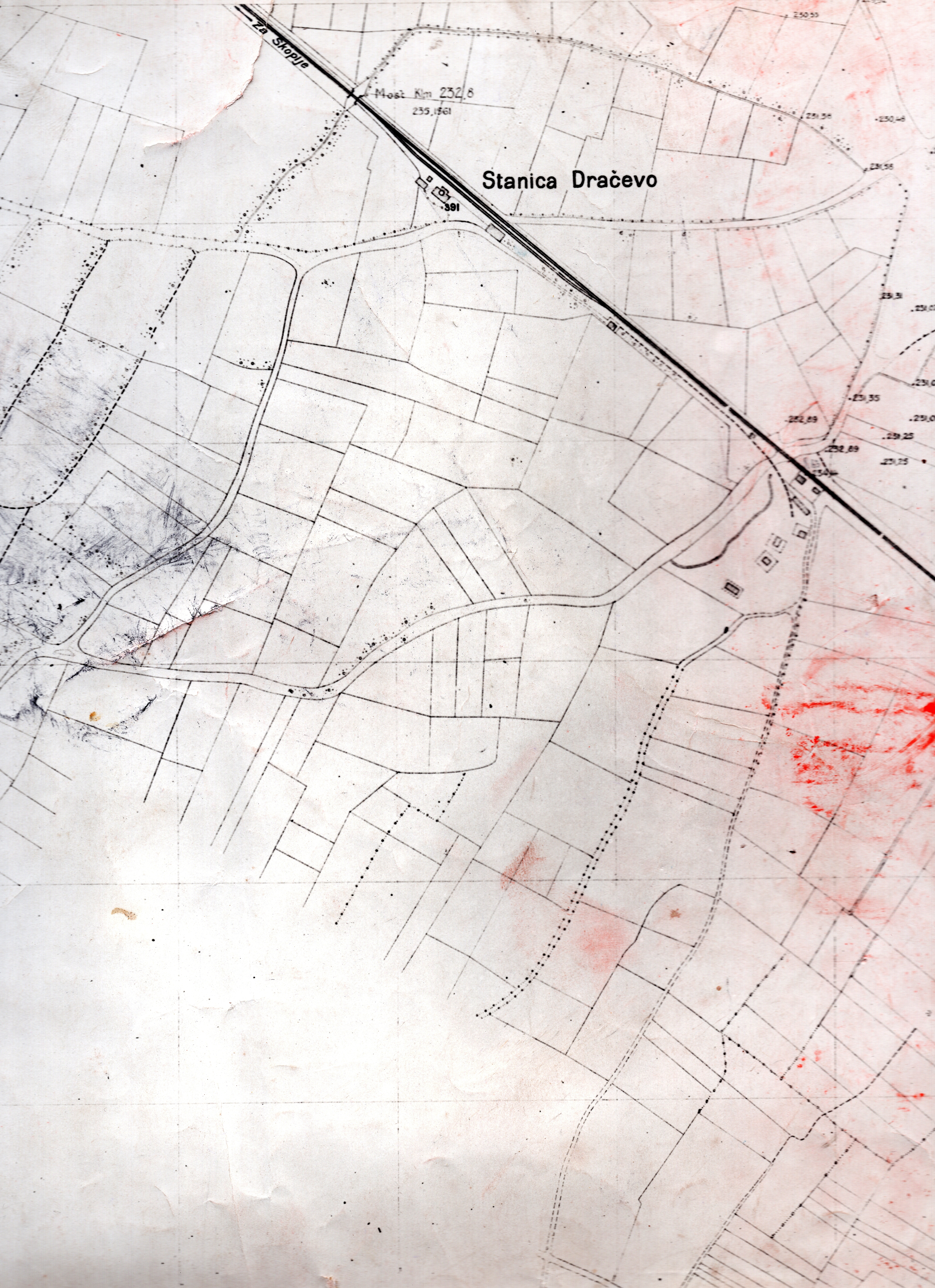 Geodesy map of station Drachevo, Skopje, an aero photogrammetric map (1930s). This media file is produced by Wikipedian in Residence in Category:Wikipedian in Residence at DARM in 2017.